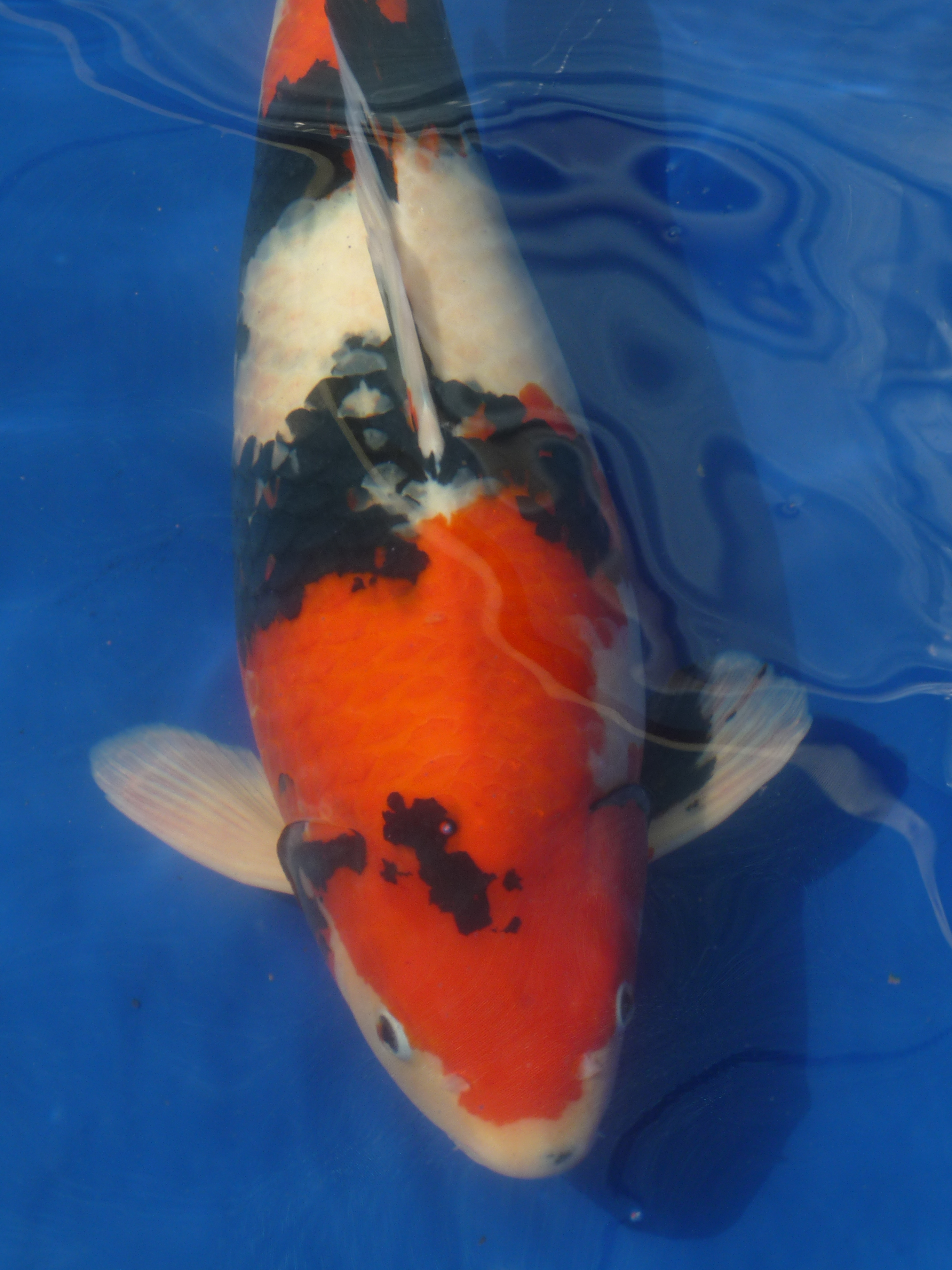 Showa (Koi)